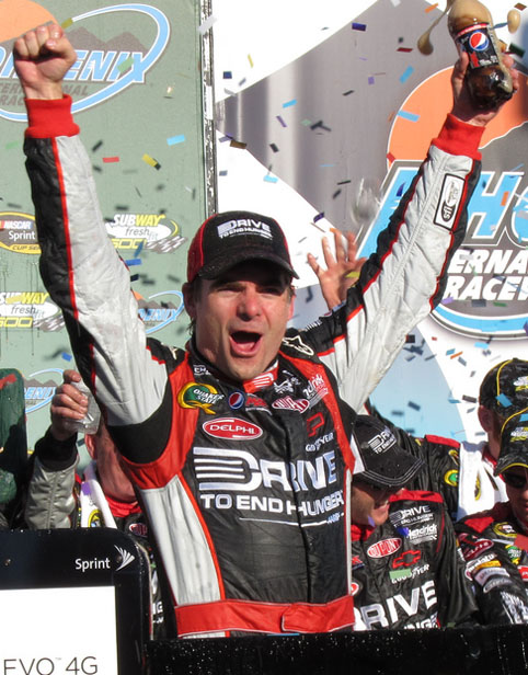 Jeff Gordon with the Subway Fresh Fit trophy in Victory Lane. Photo by Jordan McNerney, AARP.